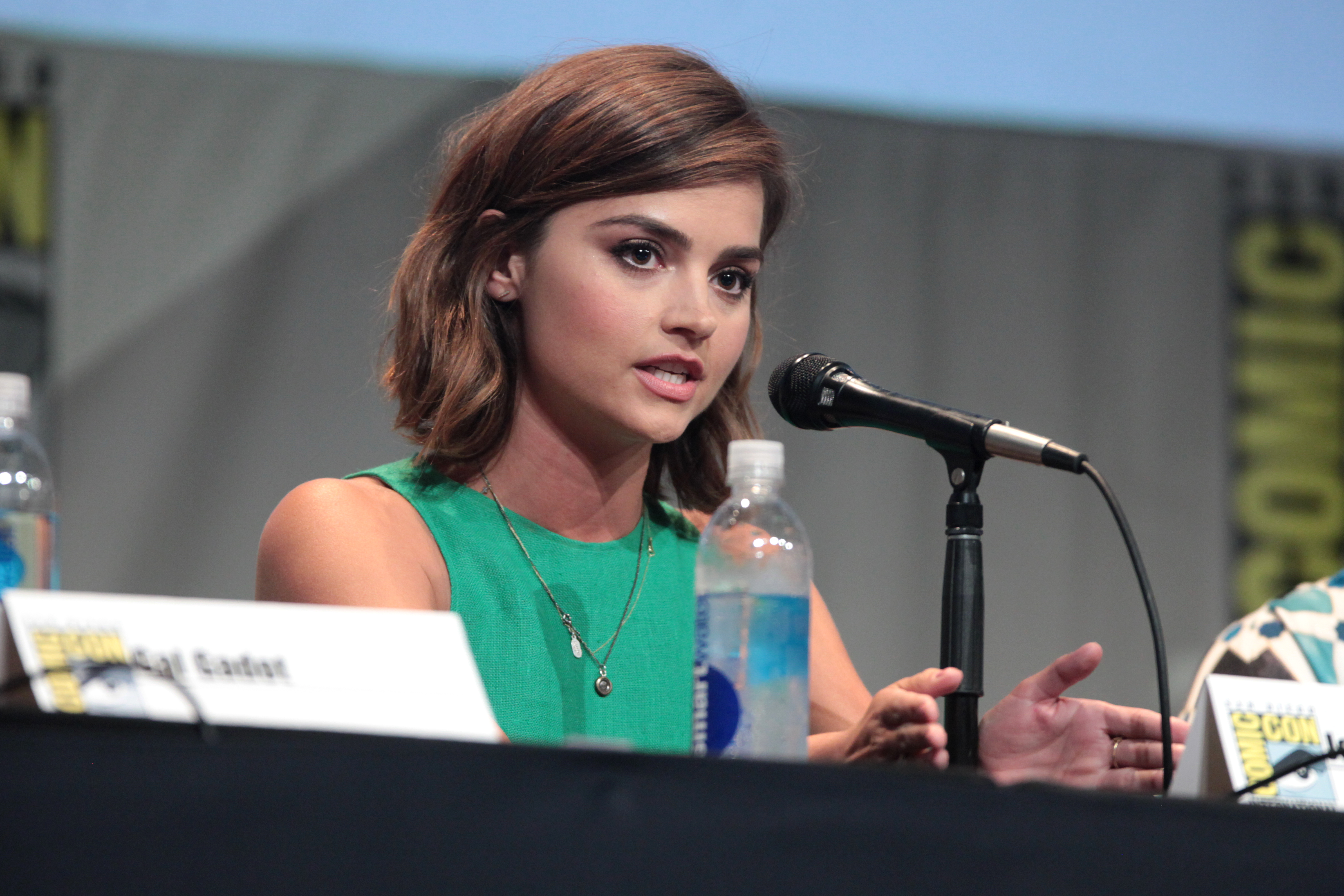 Jenna Coleman speaking at the 2015 San Diego Comic Con International, for "Entertainment Weekly: Women Who Kick Ass", at the San Diego Convention Center in San Diego, California.